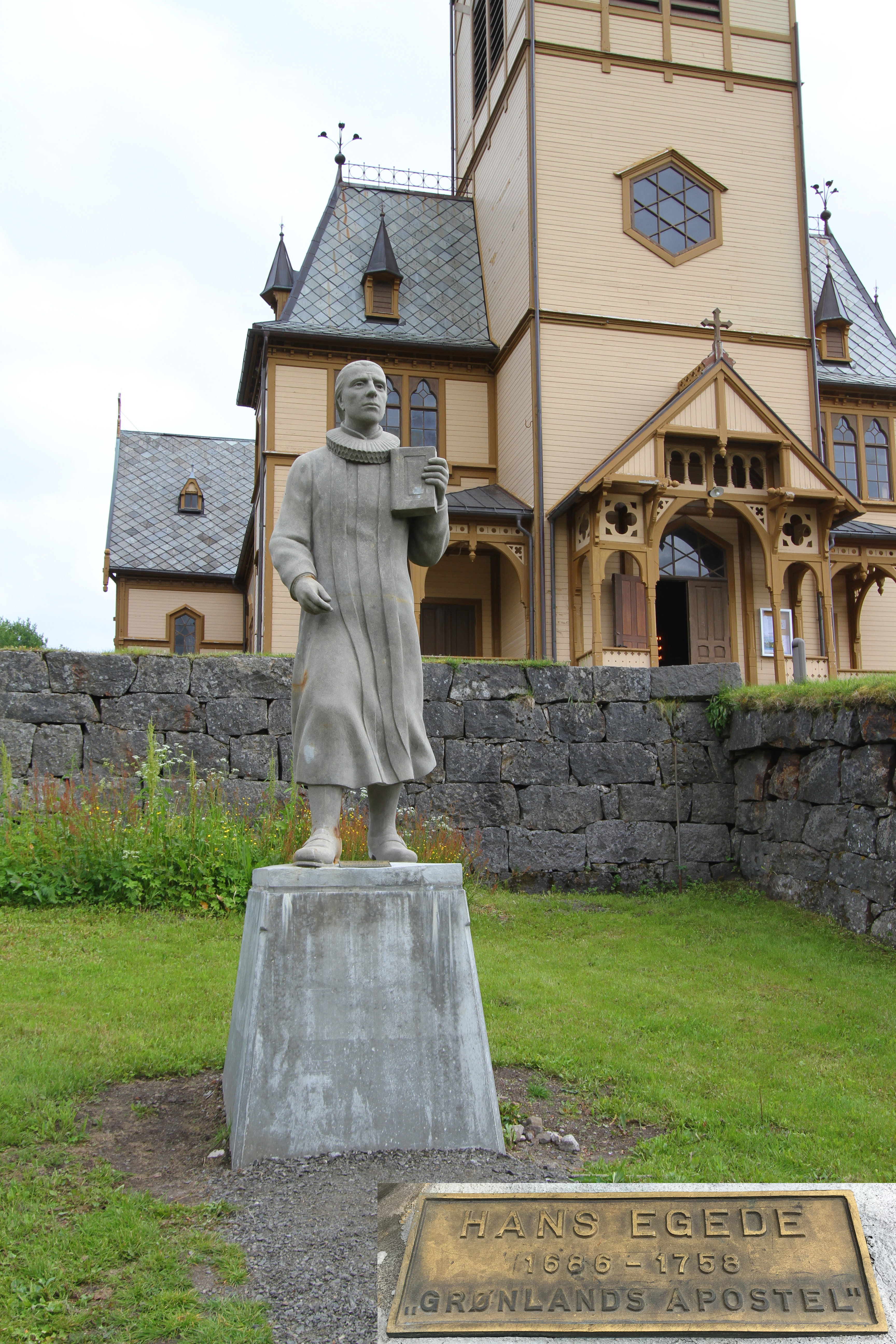 Church in Kabelvåg